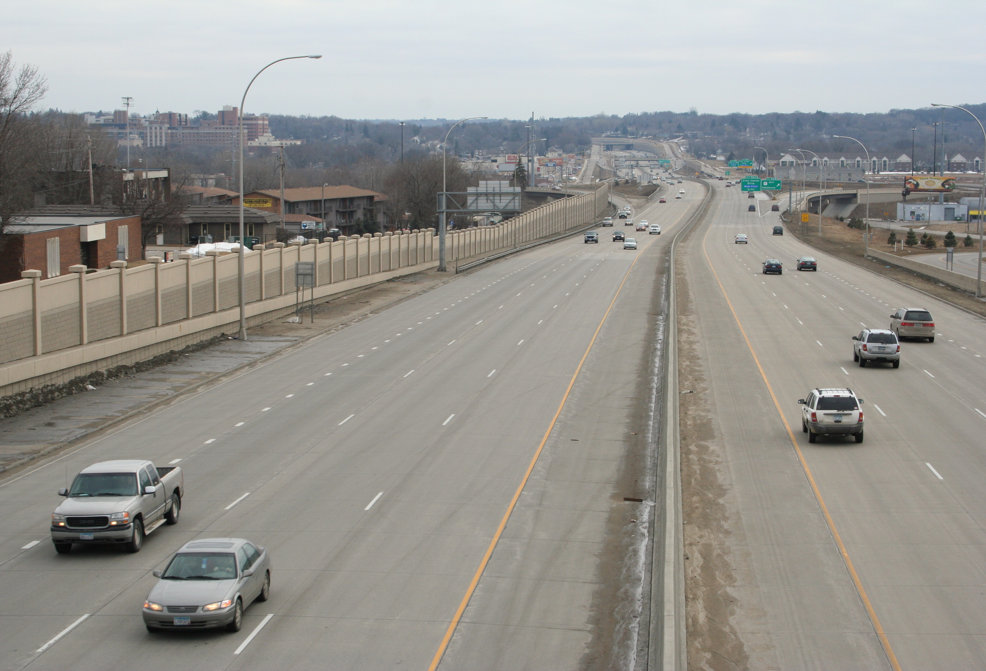 Looking south near exit 56A/B on U.S. Highway 52 in Rochester, Minnesota.